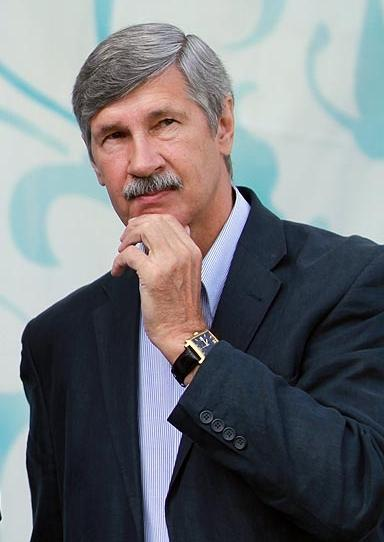 Vladimir Pilguy before a FC Dynamo Moscow game in 2011.